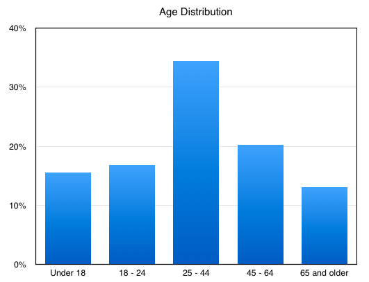 Age Distribution for Waltham, MA